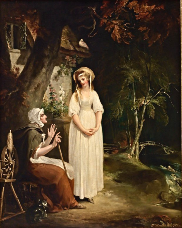 Lavinia and her Mother by William Hamilton, 1792, 60 in. x 48.5 in. (152.4 cm x 123.19 cm), oil on canvas, Cantor Art Center